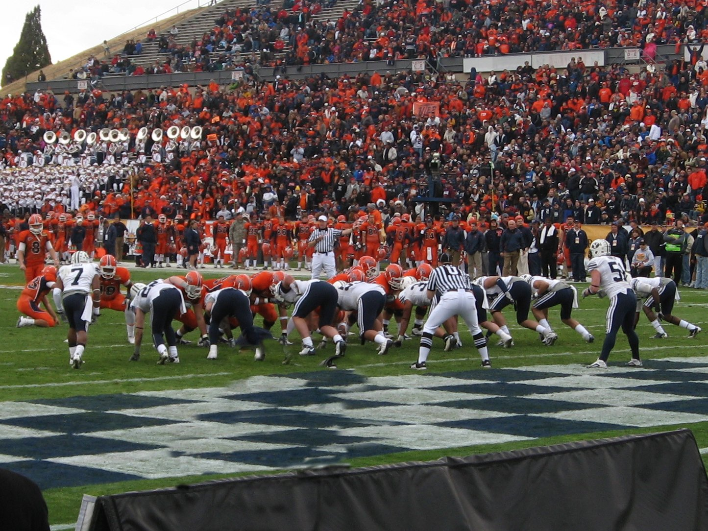 The 2010 New Mexico Bowl was a post-season American college football bowl game, held on December 18, 2010, at University Stadium on the campus of the University of New Mexico in Albuquerque, New Mexico, as part of the 2010-11 NCAA Bowl season. The game featured the UTEP Miners from Conference USA and the BYU Cougars from the Mountain West Conference.